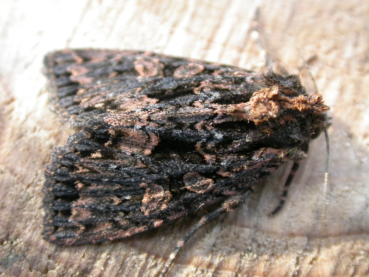 Mniotype satura (syn. Blepharita satura), to MV light, Hellerup, Denmark, 22 August 2003